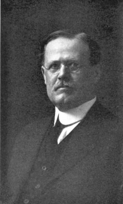 John Merle Coulter